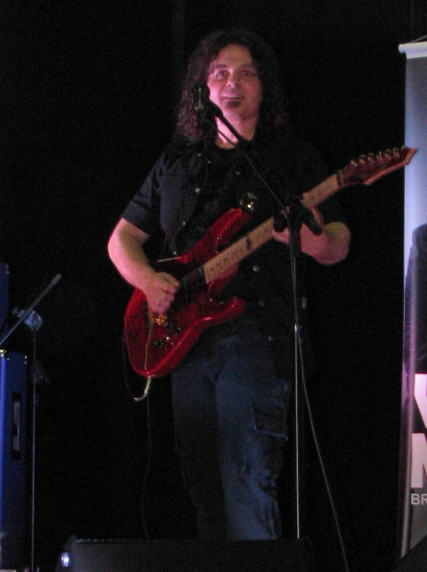 Vinnie Moore playing in Brusque - SC - Brazil - 06-02-2010